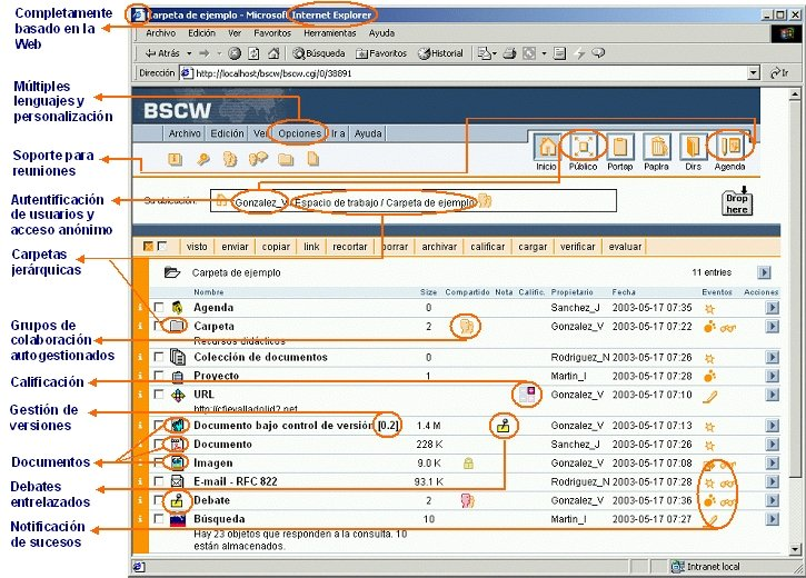 BSCW properties